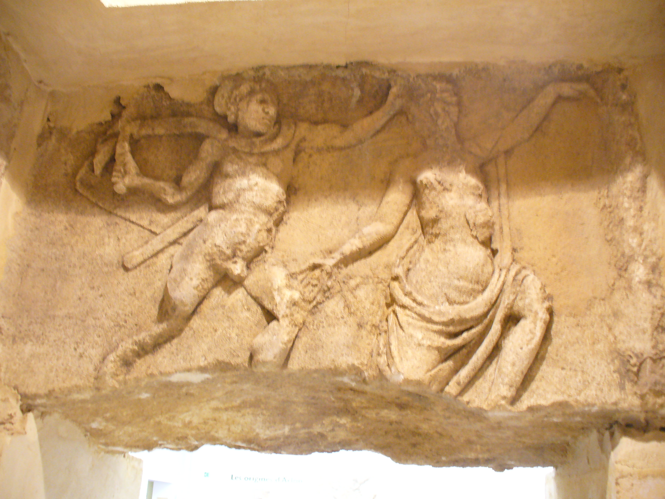 Relief on the mausoleum of Vervicius in Treveran country showing the combat between Achilles and Penthesilea.